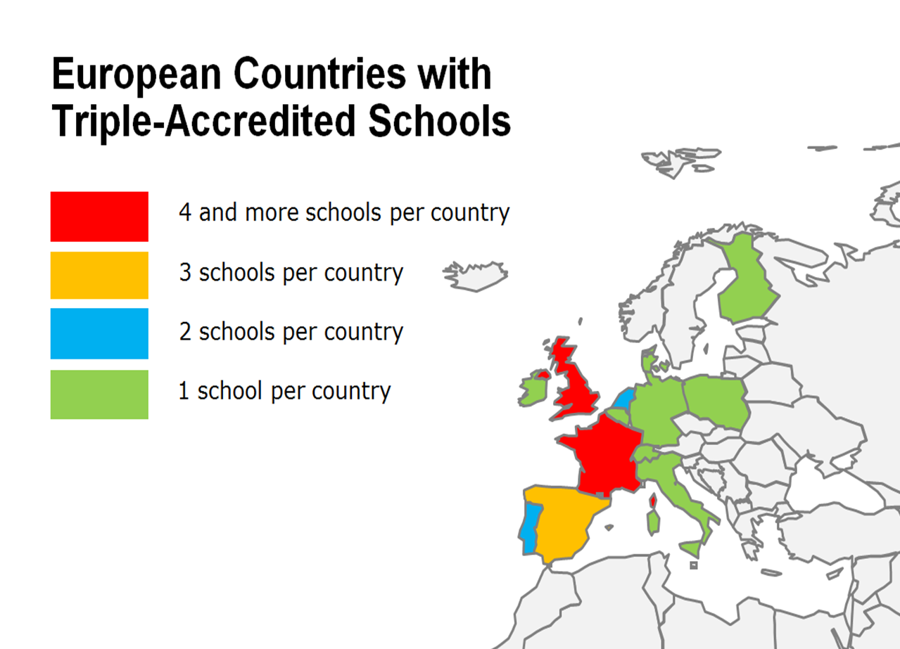 European Countries with Triple-Accredited Schools